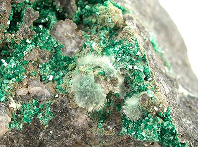 Minyulite, Sincosite Locality: Ross Hannibal Mine (North Star Mine; Hannibal Mine; and Mikado Mine), Lead District, Lawrence County, South Dakota, USA (Locality at ) Size: small cabinet, 7.1 x 5.4 x 2.7 cm Sincosite with Minyulite Sharp microcrystals of lustrous, green sincosite, a rare calcium, vanadium, phosphate, are nestled in a vug along with drusy rosettes of radiating white minyulite, a rare potassium, aluminum, phosphate. very colorful! Found by Tom Loomis and Chris Korpi in the early 90s, and said to be among the best of species, hard to obtain otherwise